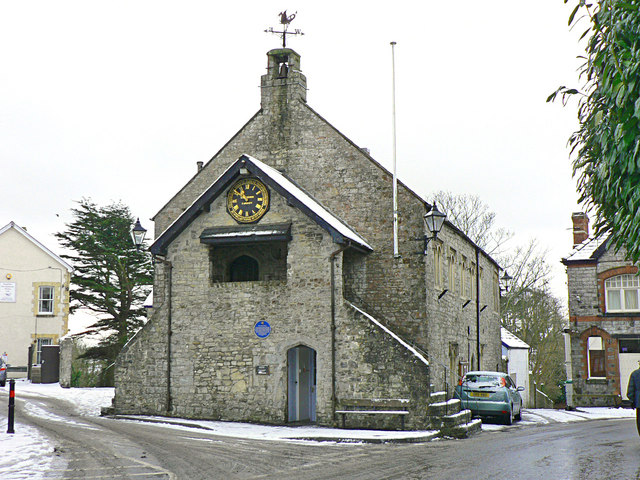 The Town Hall, Llantwit Major The historic building is reputed to have been built by Gilbert de Clare and served as a manorial court. It was rebuilt in the late 16th century. It currently houses the Town Clerk's office, an information centre and has a function room in the upper floor.